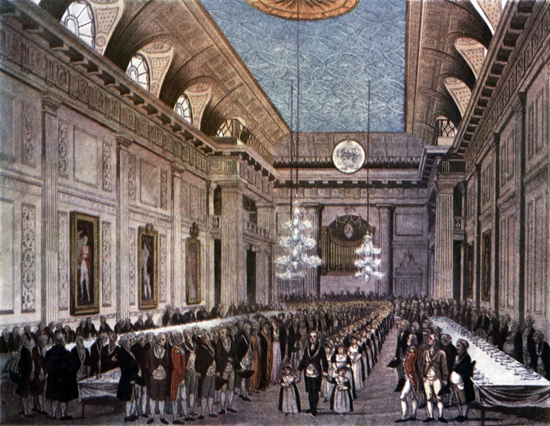 Freemasons' Hall